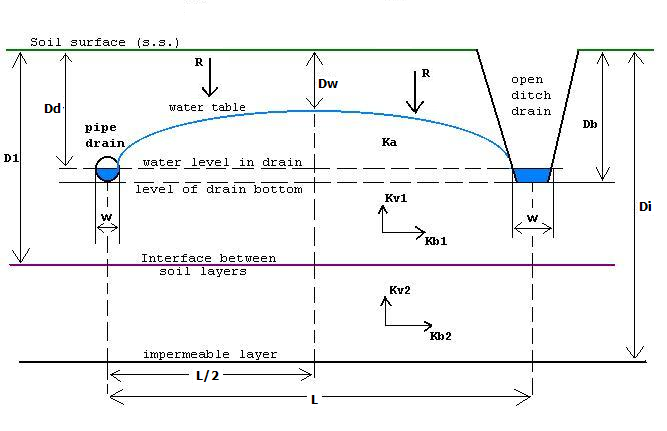 Subsurface drainage model of a layered anisotropic soil, amplification of parameters compared to those used in Hooghoudt's drainage equation